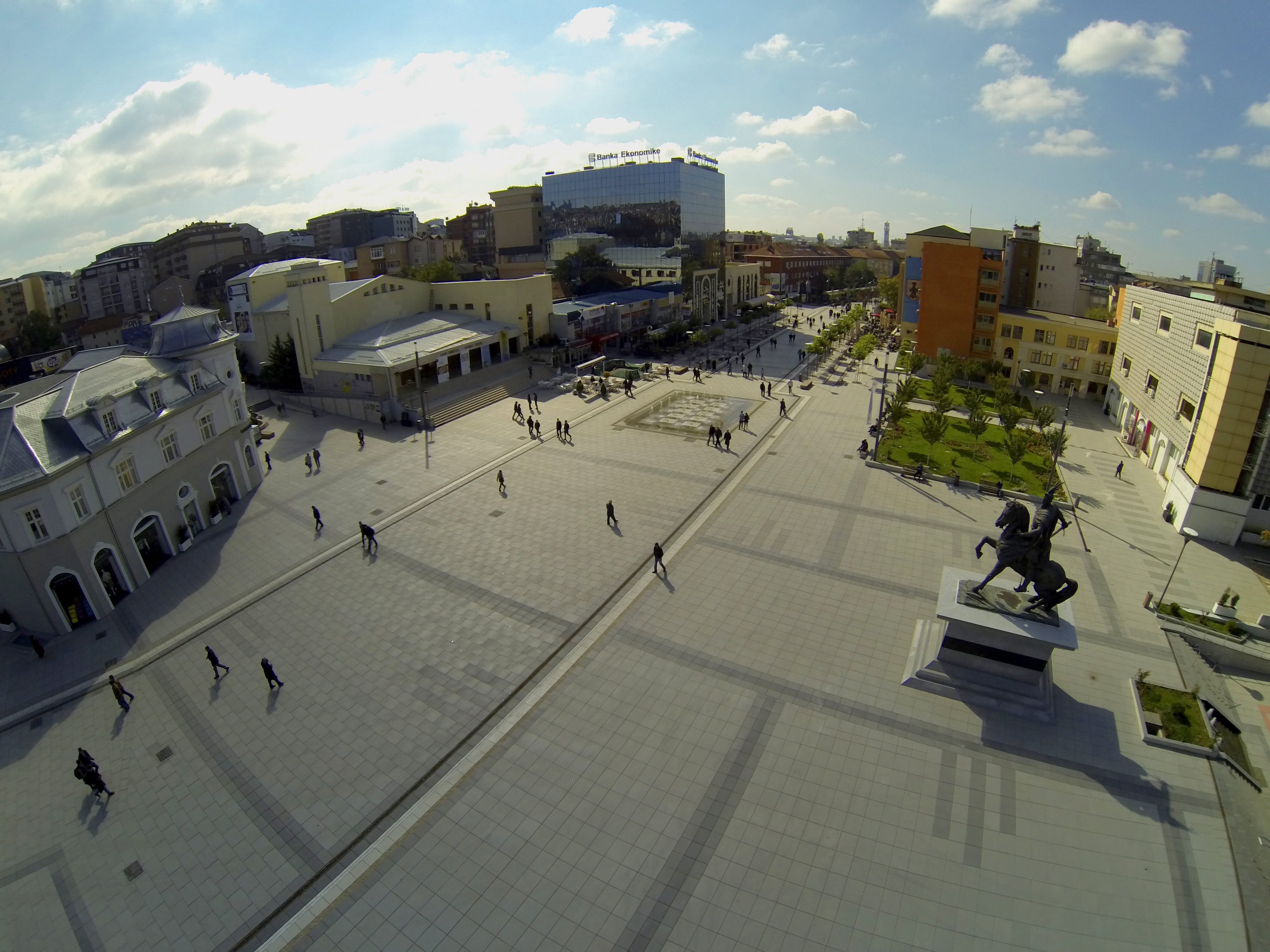 Sheshi